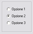 radio button